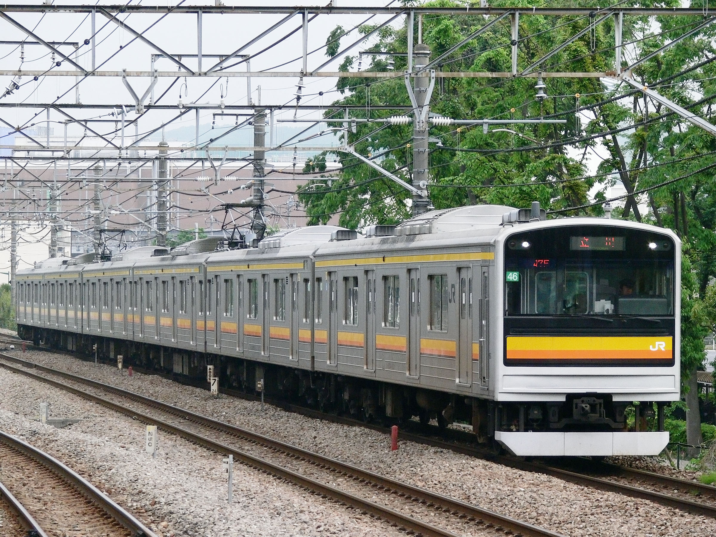 JR East 205-1200 series EMU set 46 on the Nambu Line